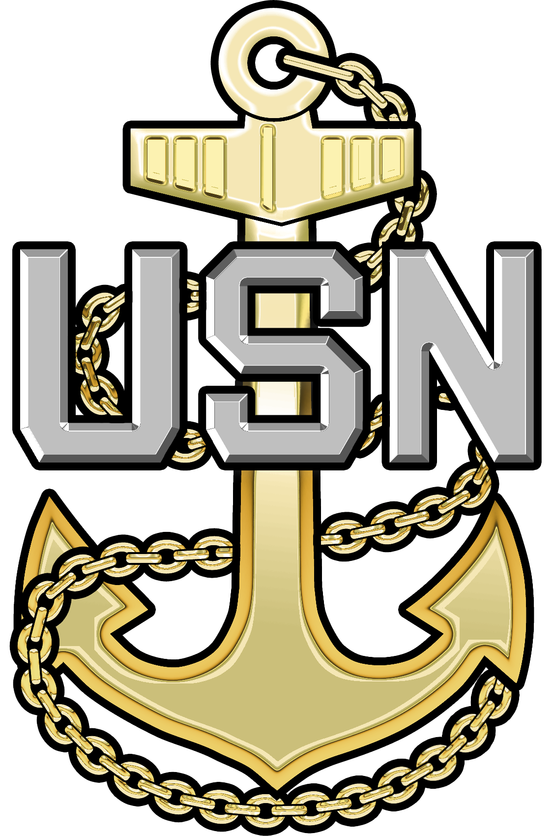 US Navy Chief Petty Officer collar rate insignia